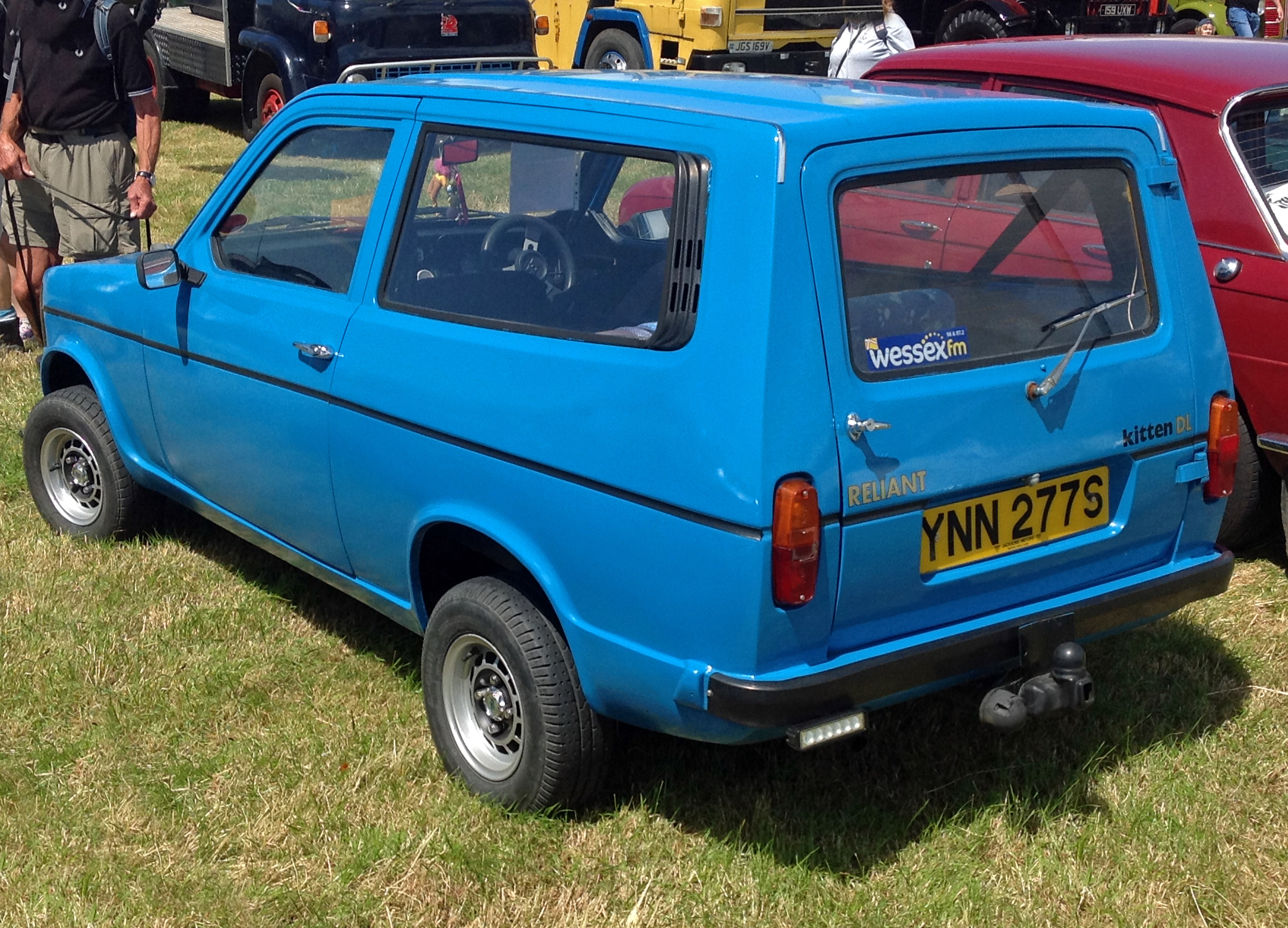 1977 Reliant Kitten DL Estate at the Chickerell Steam and Vintage Rally, Weymouth, Dorset